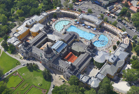 Széchenyi thermal bath, Budapest, Hungary, aerial photography